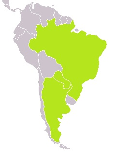 brazil argentina paraguay